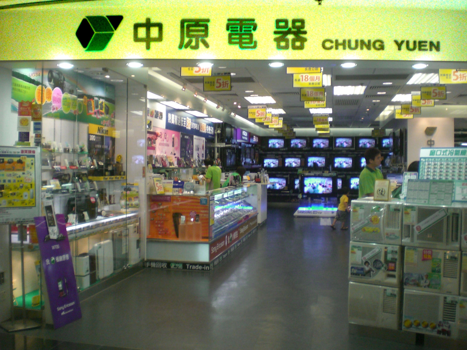 將軍澳 新都城 廣場2期